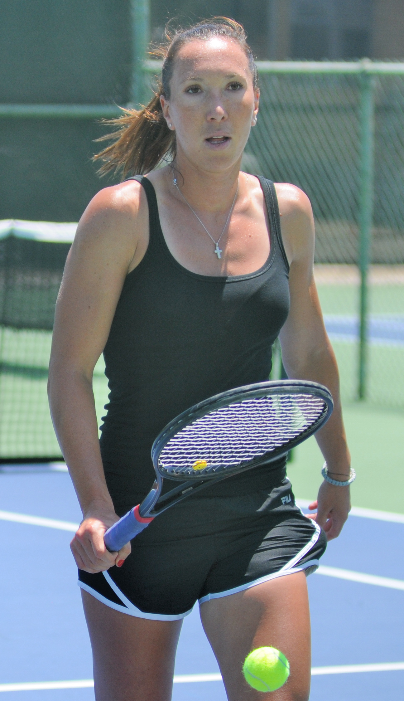 Mercury Insurance Open 2012